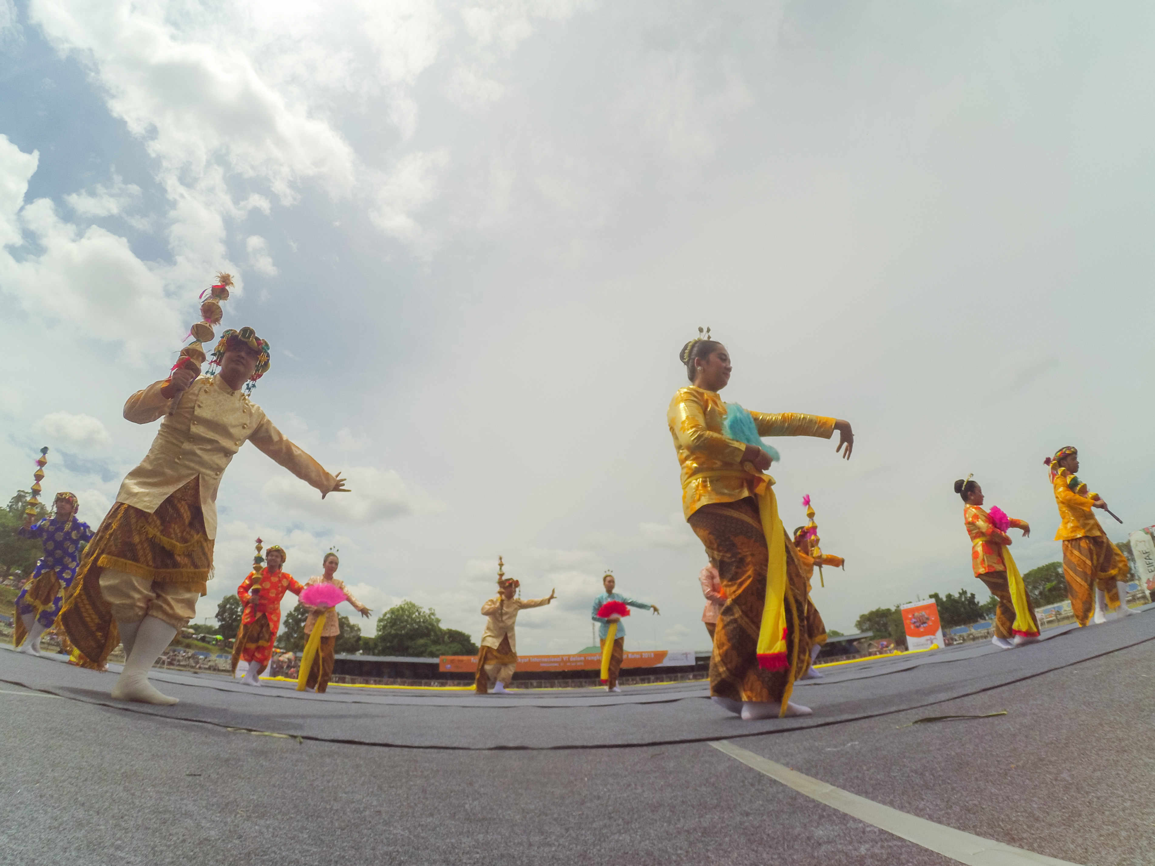 Ganjar Ganjur Dance (Ganjur Dance) It is a dance held at events at Kedaton Kutai Kartanegara, such as the Erau program, the traditional ceremony of Sultan sowing, the sowing of the new Sultan, the marriage of the Sultan's sons and daughters, and welcome guests. Ganjar Ganjur dance is acculturation Kutai-Javanese culture that has mingled since interacting The Kutai Kartanegara Kingdom with the Majapahit Kingdom at the time the government of Maharaja Sultan (1370-1420 AD). Through interaction the culture of the Majapahit Kingdom entered and mingled with Kutai culture. One of the results of cultural acculturation this is Ganjur Dance. The side of cultural acculturation in the performance of Ganjar Ganjur Dance seen in the instrument of the instrument used. Ganjar Dance Ganjur is danced with the accompaniment of a composed gamelan instrument from the exact same demung, saron, bonang, gender, and kendang with gamelan instruments in Java. Ganjar Ganjur dance is danced by relatives of the Kutai Sultanate Country. Ganjur dancers number four people, two men and two women. Male dancers are called "Beganjar" a woman called "Begging". Male dancers wear costumes called "Miskat" for the top (shirt) and "Dodot" for the part down (pants ". While for female dancers to wear costumes called "ta'wo" for the top (clothes) and Tapik "for the bottom. When dancing, each dancer carry dance accessories. For men carrying mace and for women carry a fan.